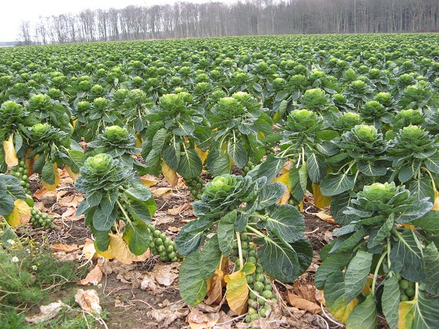 Sprouts! No doubt this time.